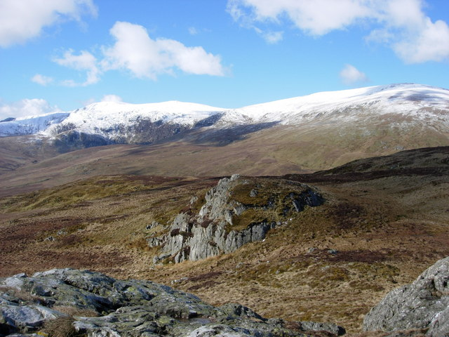 Open moor west of Pen y Castell, 5 km from Llanbedr-y-Cennin, Conwy, Wales. Looking up to a wintry main Carneddau ridge: Carnedd Llewellyn left, Foel Fras right.